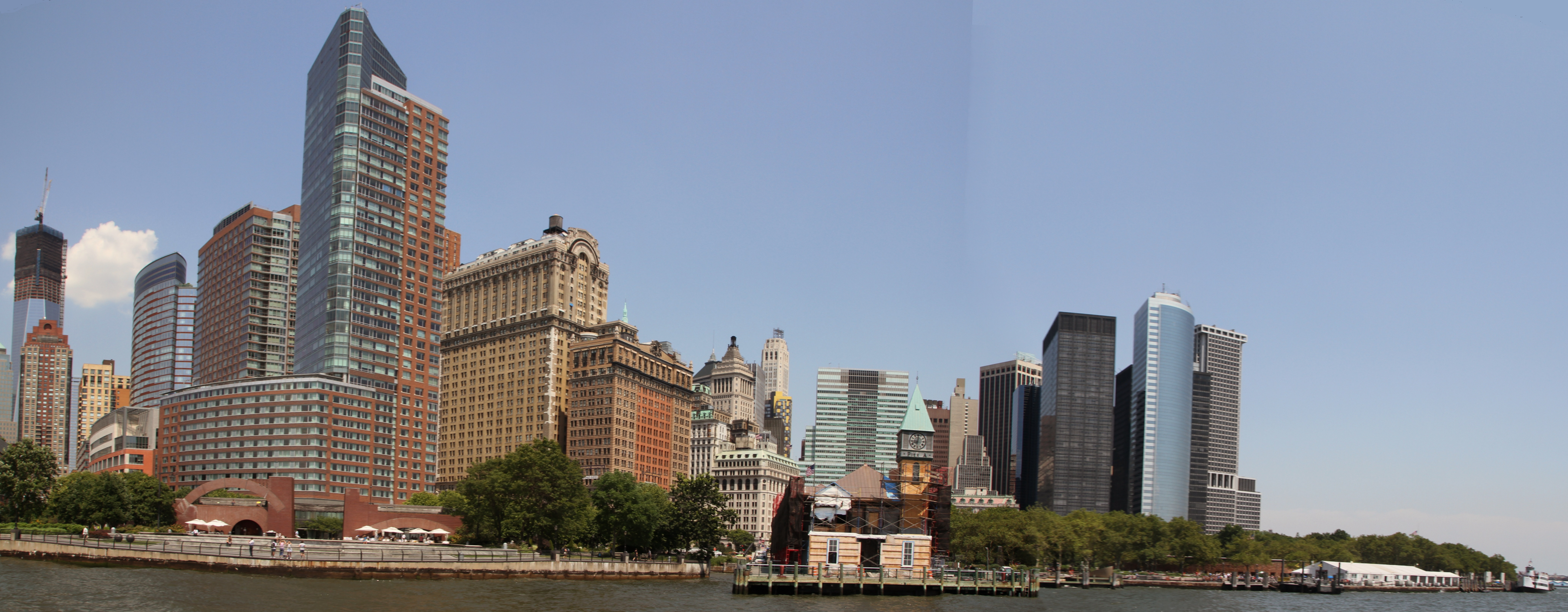 Battery Park, in the lower Manhattan, New York.